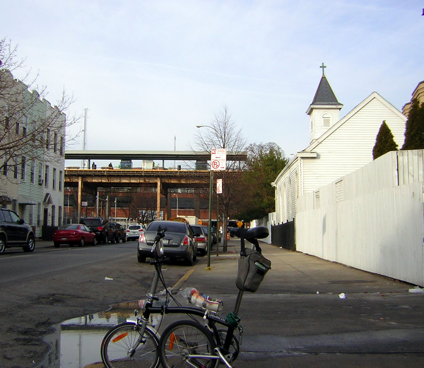 There; I knew I had a lousy picture of the Alabama Avenue station. Some day I need to return to Georgia Avenue and get the name of the little church at the right. And bring a better camera, and stand in a better place, but use the same bicycle.